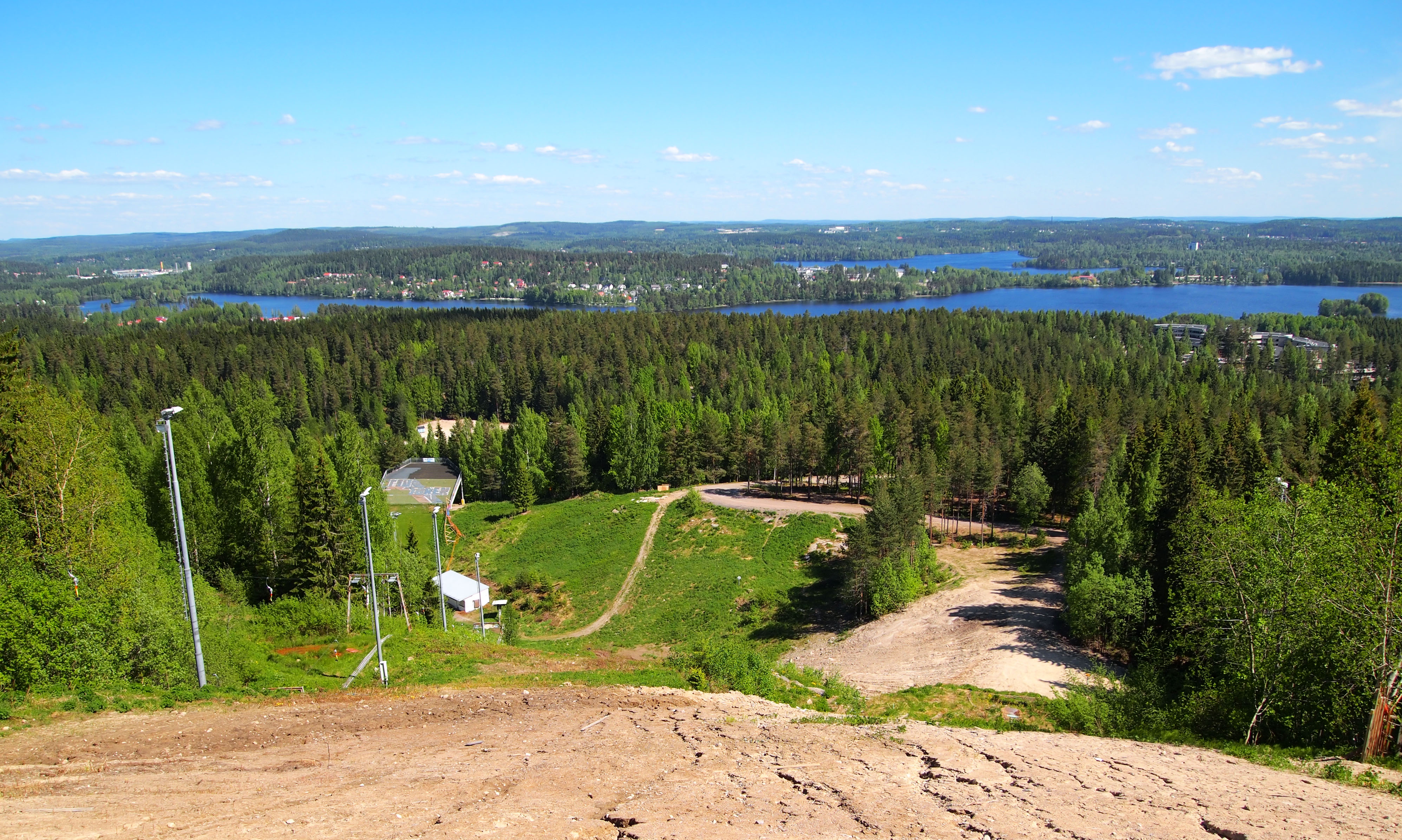 View from hill Laajavuori towards a lake in Jyväskylä.